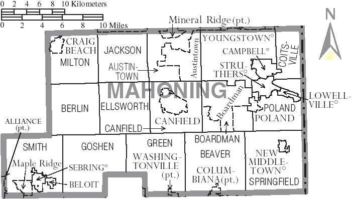 Map of Mahoning County, Ohio, United States with township and municipal boundaries